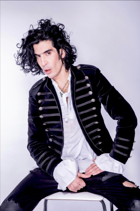 Andres Cuervo poses during a photoshoot in Miami, Florida, in May of 2020.